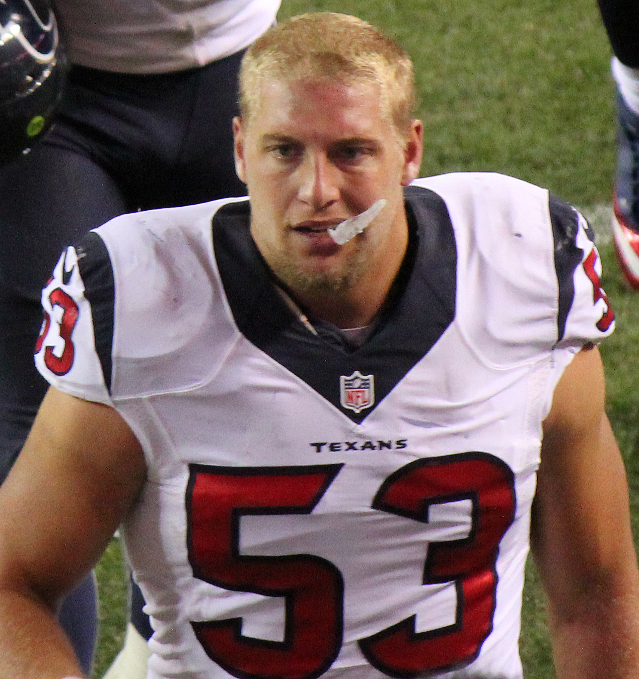 Max Bullough, a player on the National Football League.